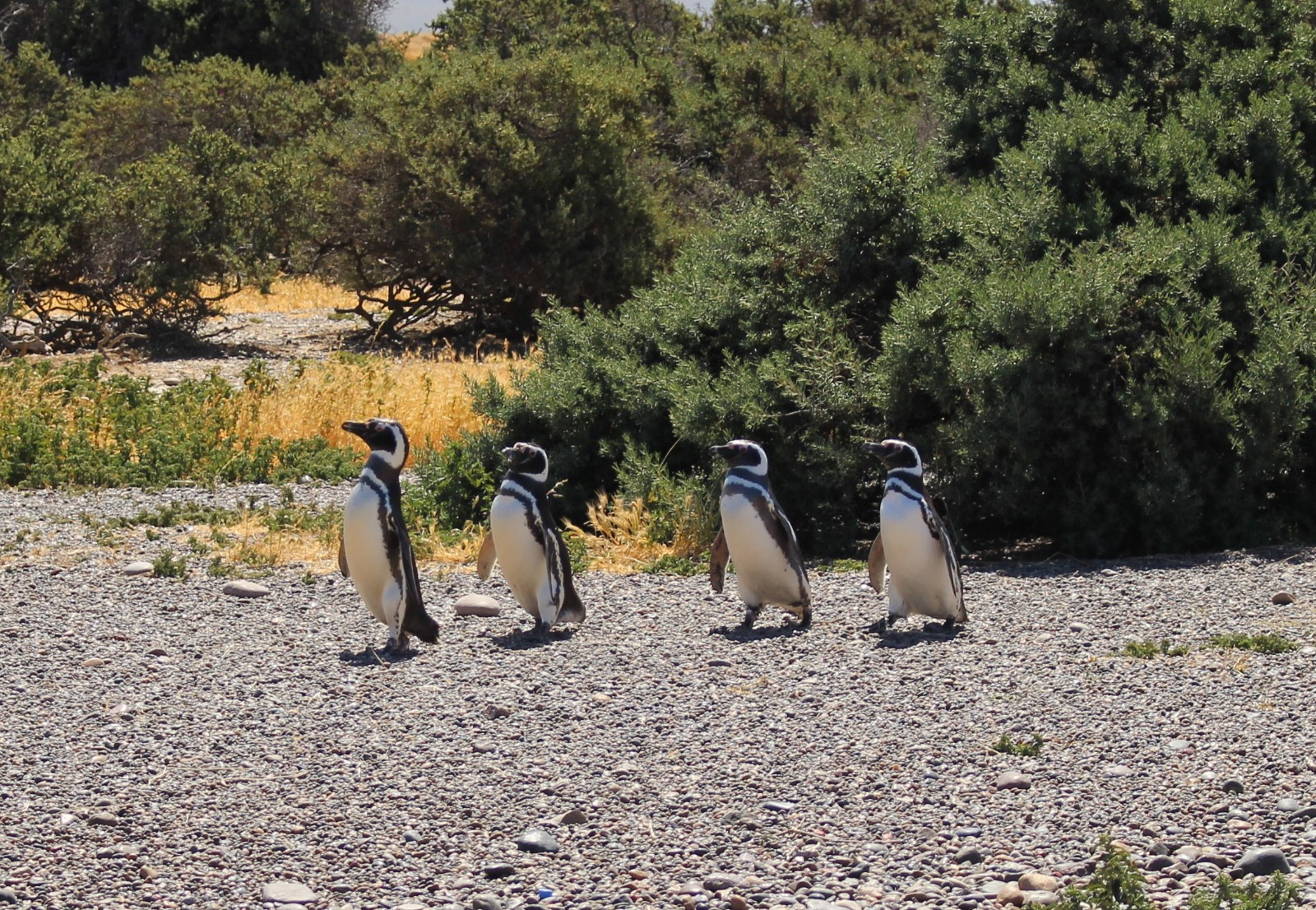 Spheniscus magellanicus in Punta Tombo